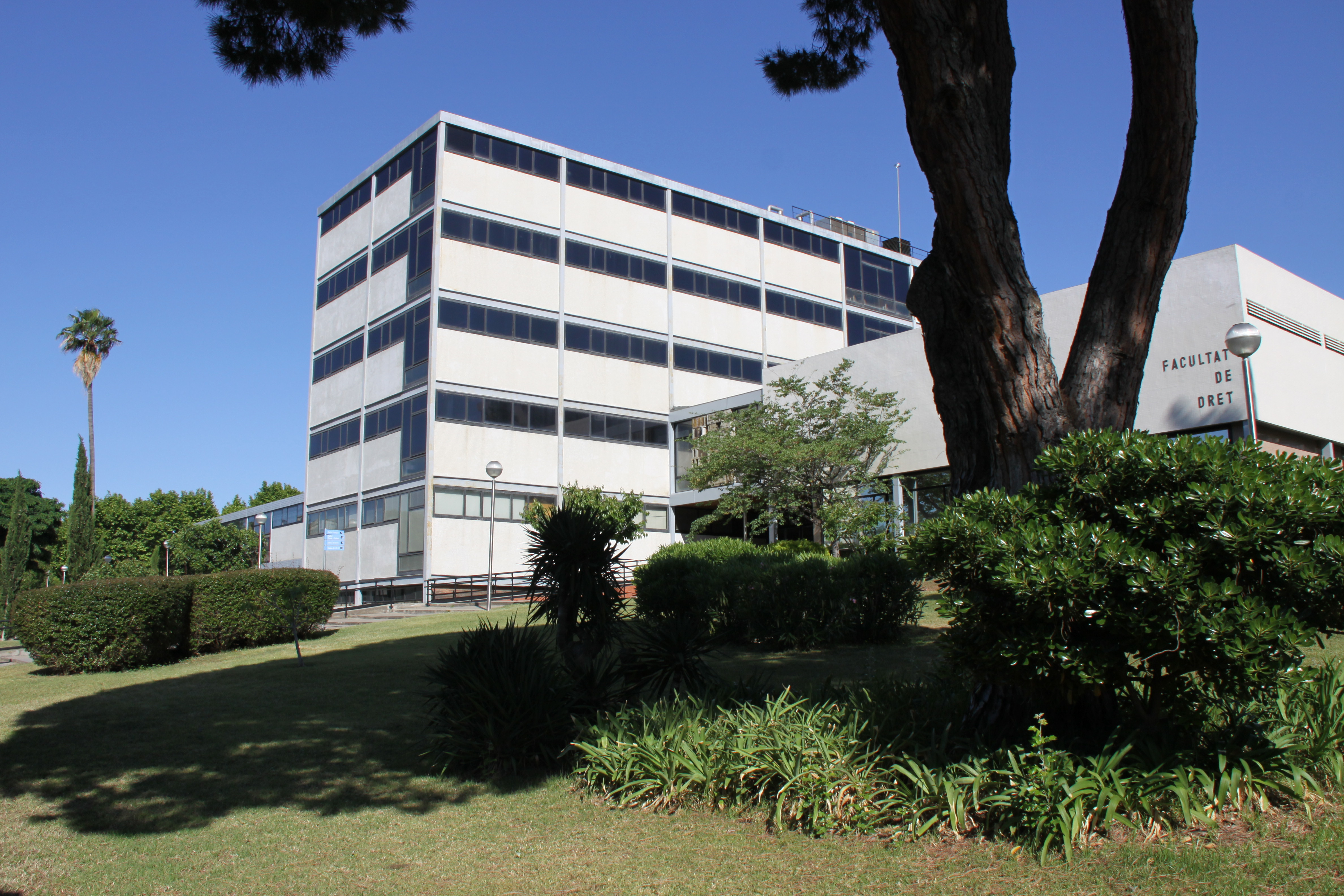 Building of the Law Faculty of Barcelona University (1957-58), by Giráldez, López Íñigo and Subías.